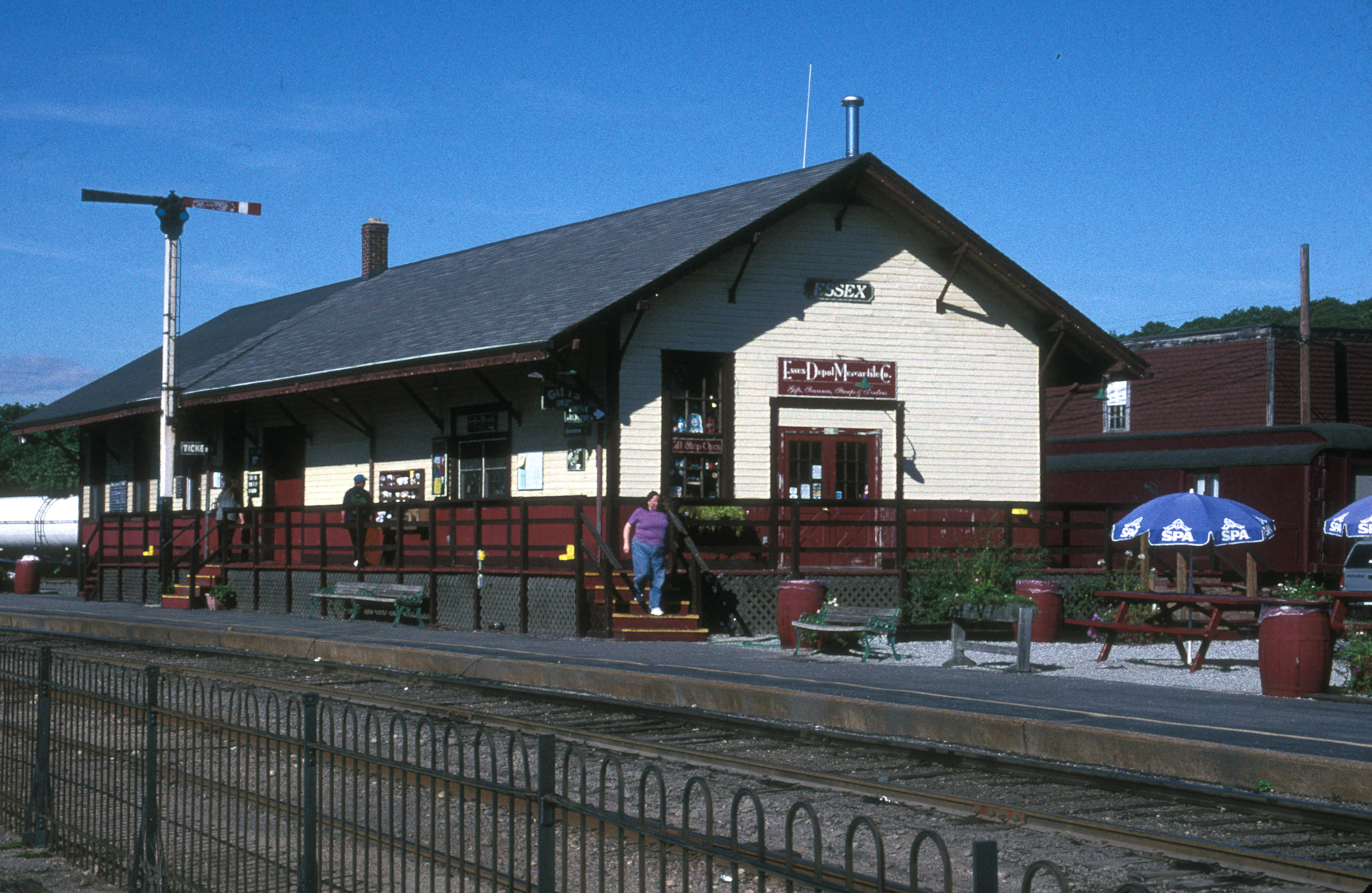 Essex Freight Station, built in 1915 as part of the Connecticut Valley Railroad. It is now used as the ticket office of the Essex Steam Train - a tourist train.